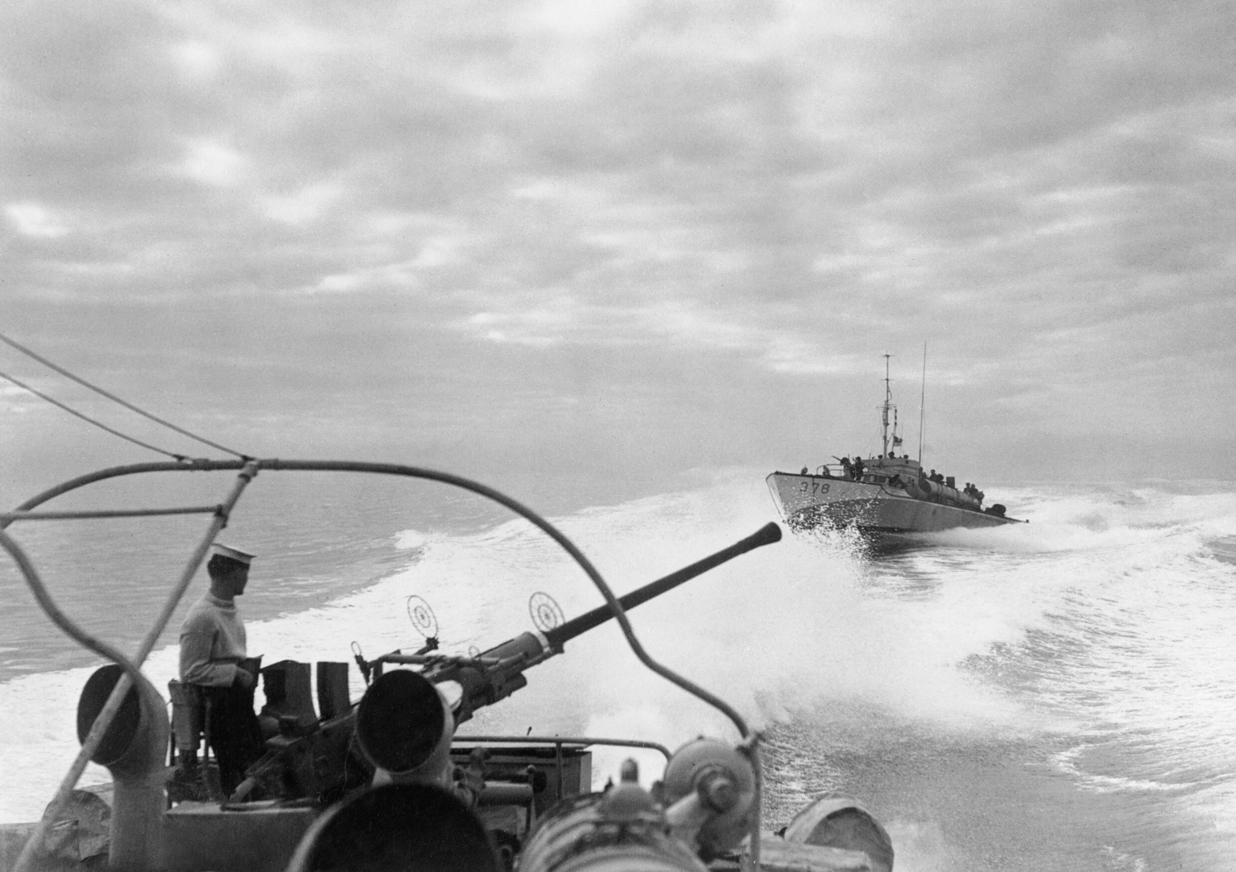 IWM caption : THE ROYAL NAVY DURING THE SECOND WORLD WAR. From the bridge of an MTB showing the aft Bofors gun and MTB 378 at speed astern in the Mediterranean. These vessels were part of a small force of British MTBs which, together with American patrol boats, turned the 45 mile stretch of enemy held coast between Sezi and Genoa into their hunting ground.